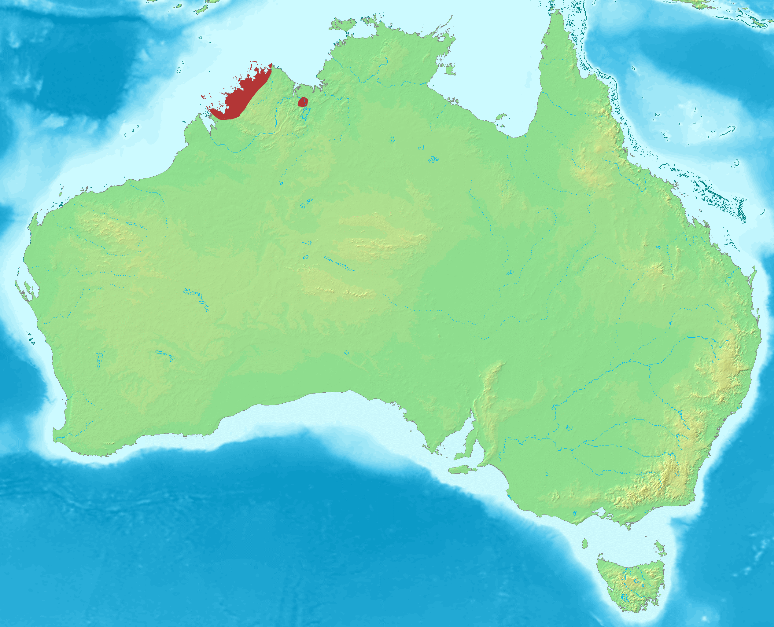 The Distribution of the Kimberley Rock Rat